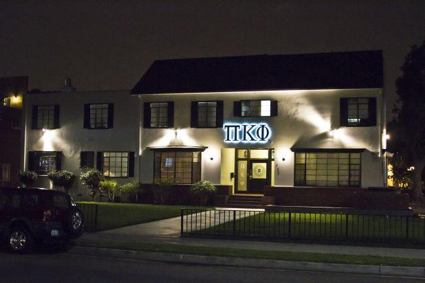 The Delta Rho Chapter of Pi Kappa Phi - Evening Shot University of Southern California (USC)